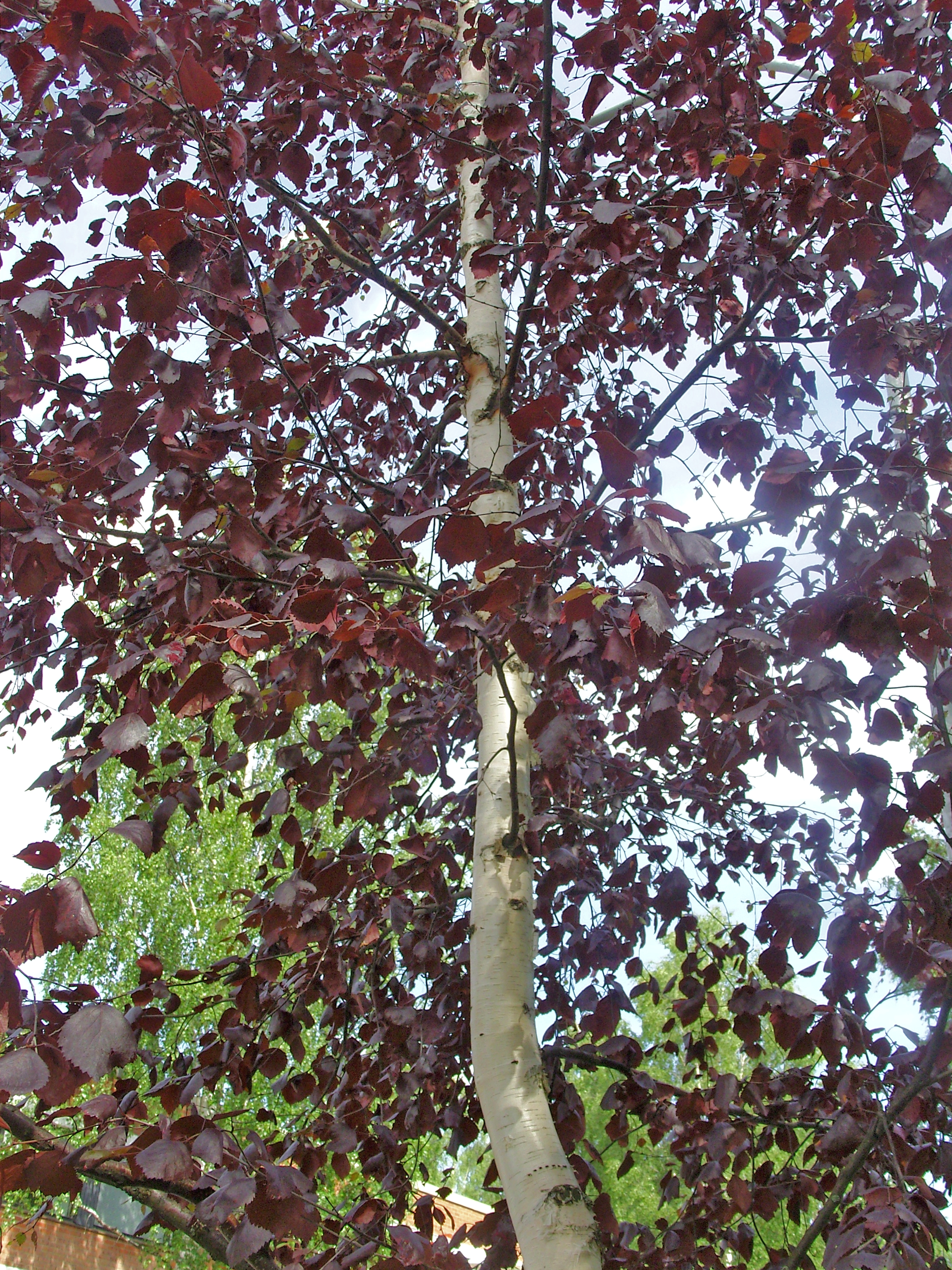 Red birch (Betula pubescens f. rubra).